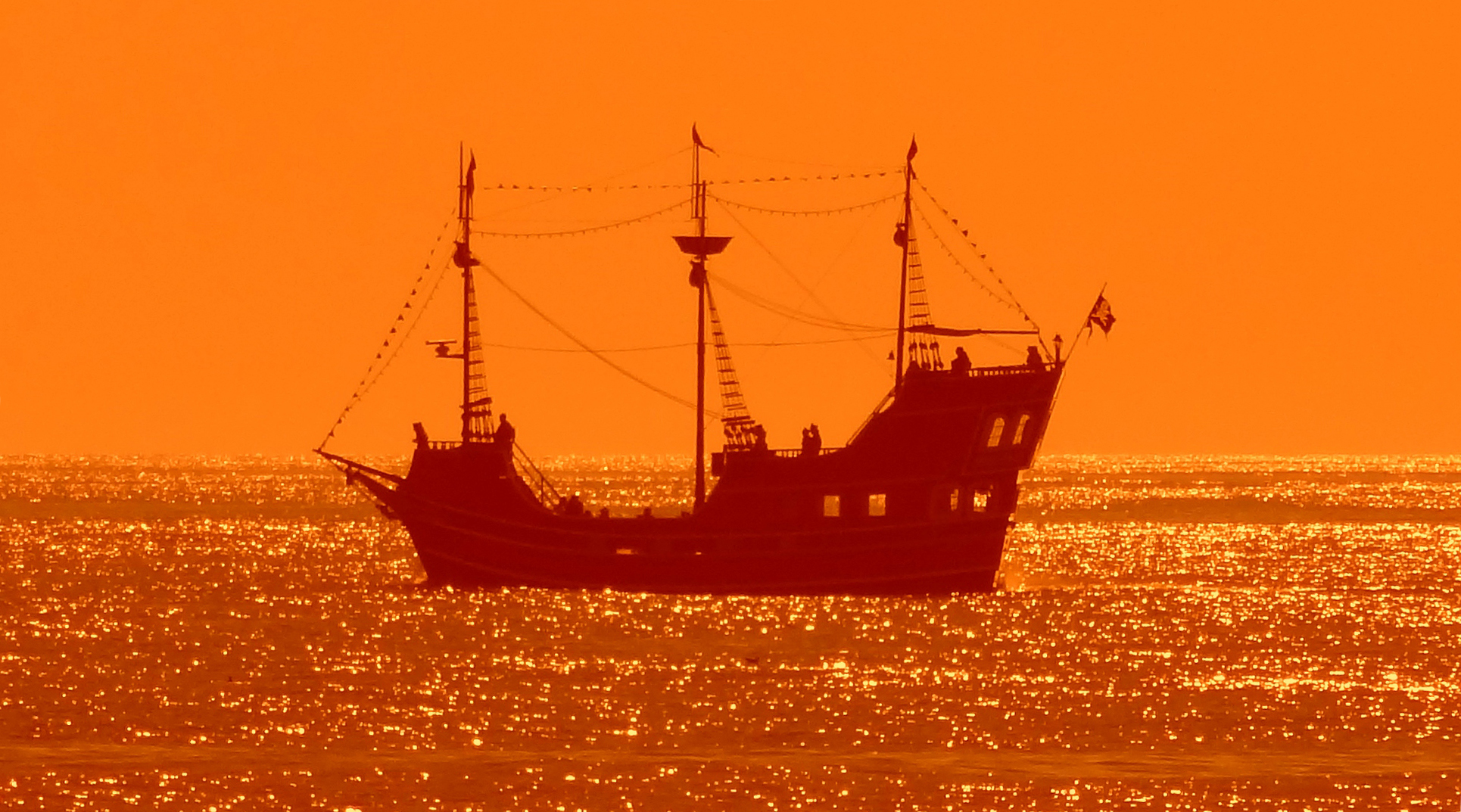 The "pirate ship" is a standard sight at Clearwater Beach, Florida.